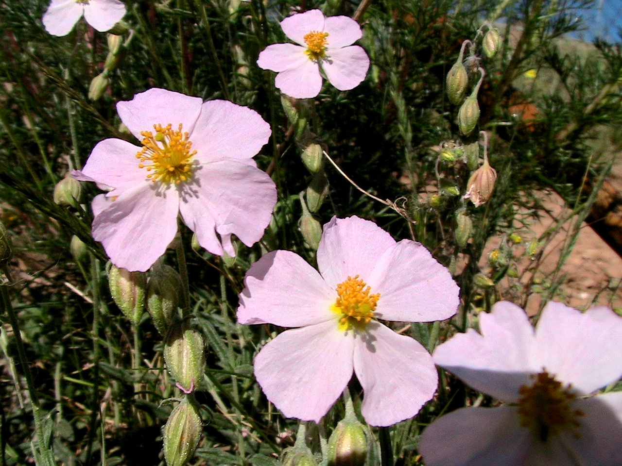 Helianthemum nummularium. In Mola de Lord (Solsonès - Catalunya). To 1.125 m. altitude